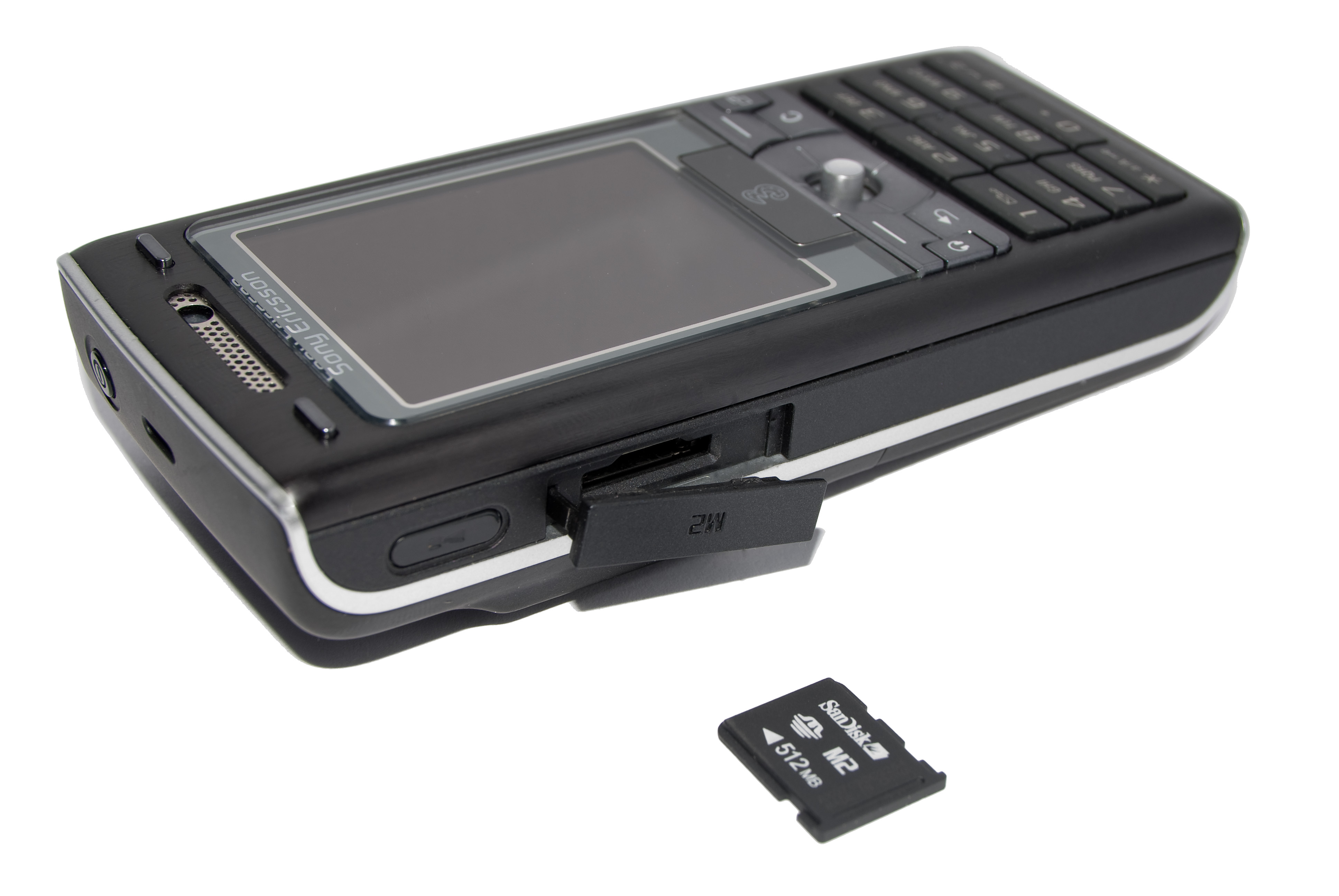 Image of my K800i, taken by myself and processed using Adobe Photoshop CS3.